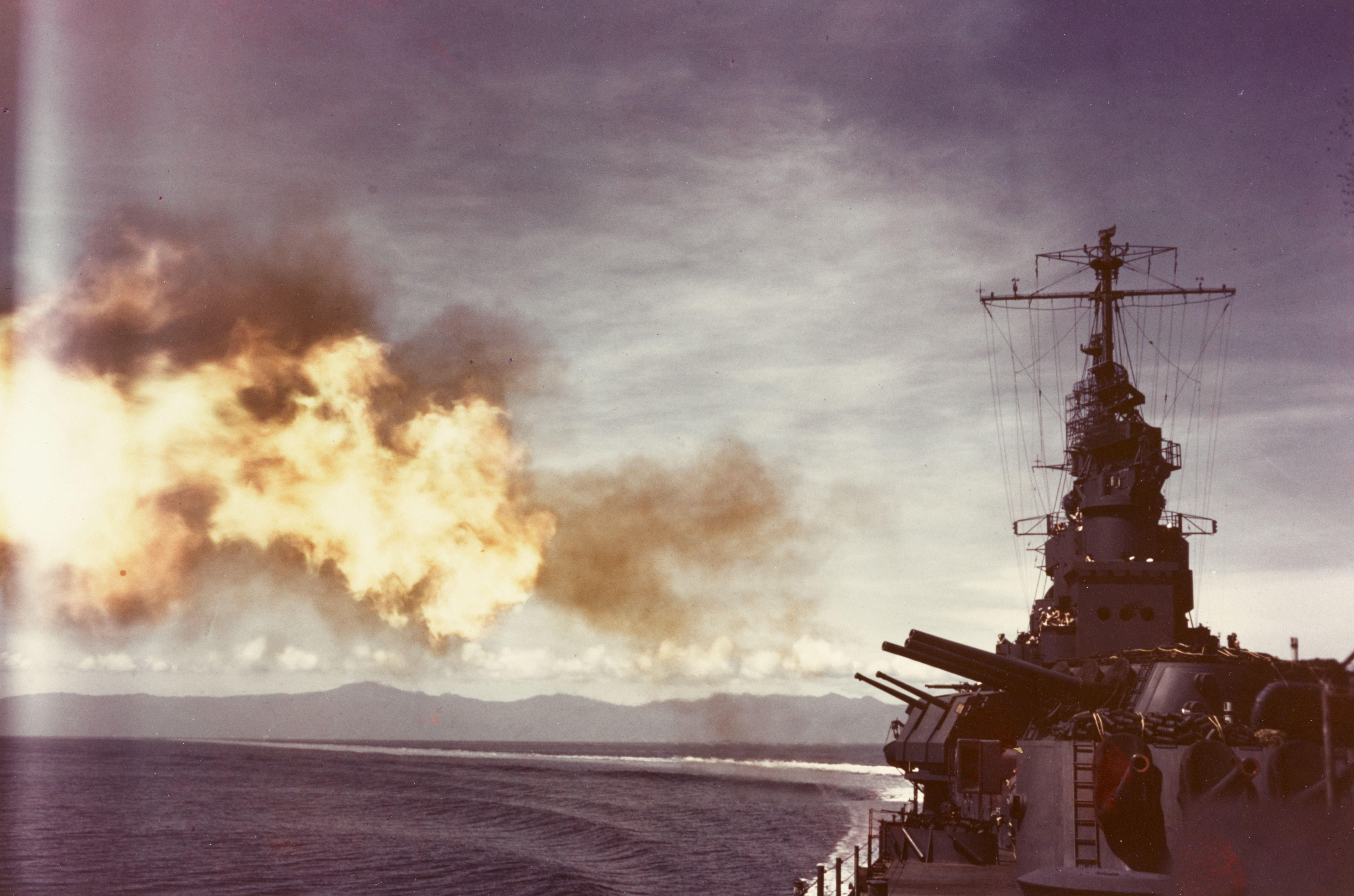 The U.S. Navy light cruiser USS Biloxi (CL-80) firing her 6"/47 main battery guns while steaming in a turn, during her shakedown cruise, October 1943.